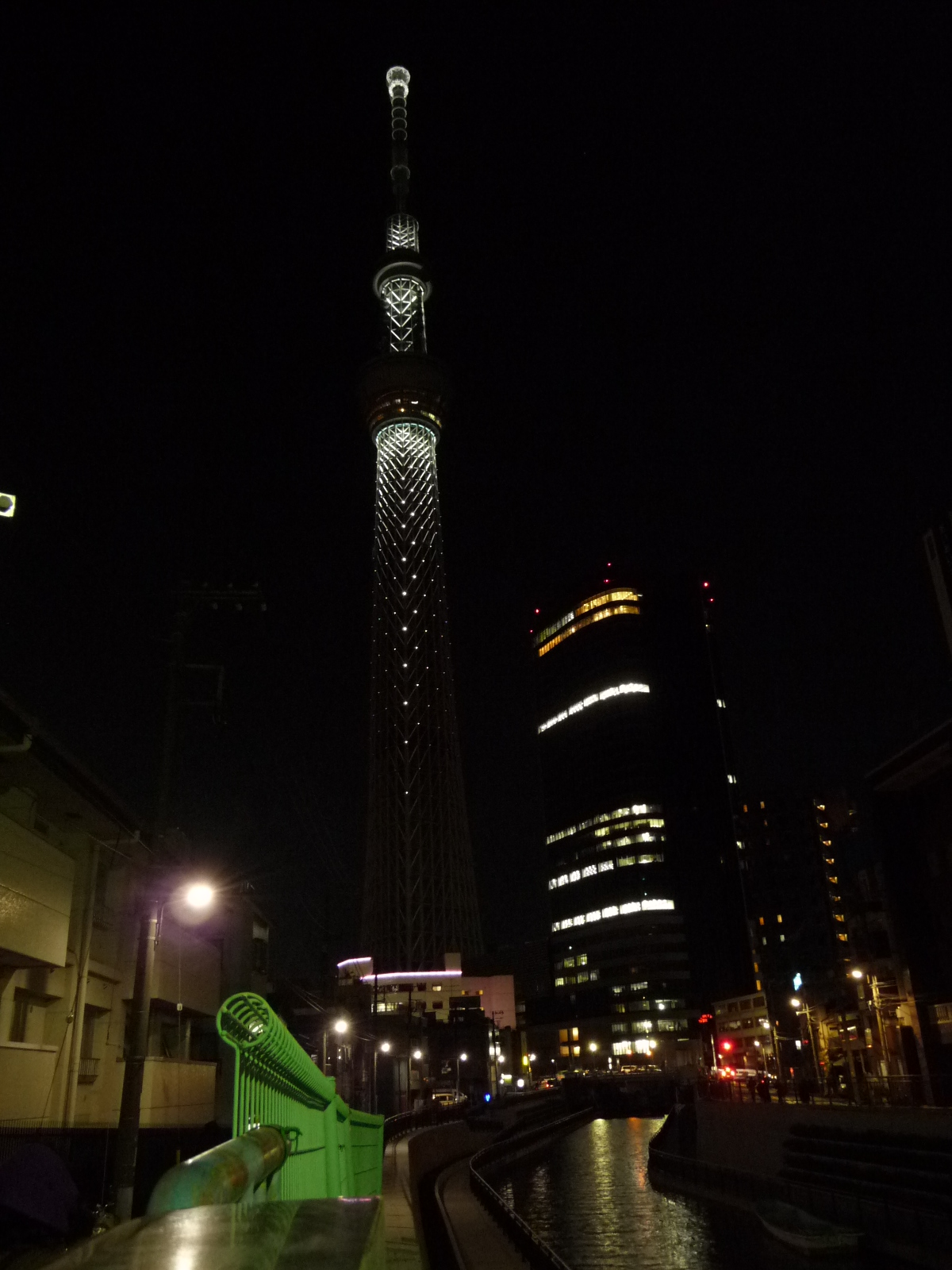 Tokyo Sky Tree, Christmas and year end illumination on December 23, 24 and 31, 2011.